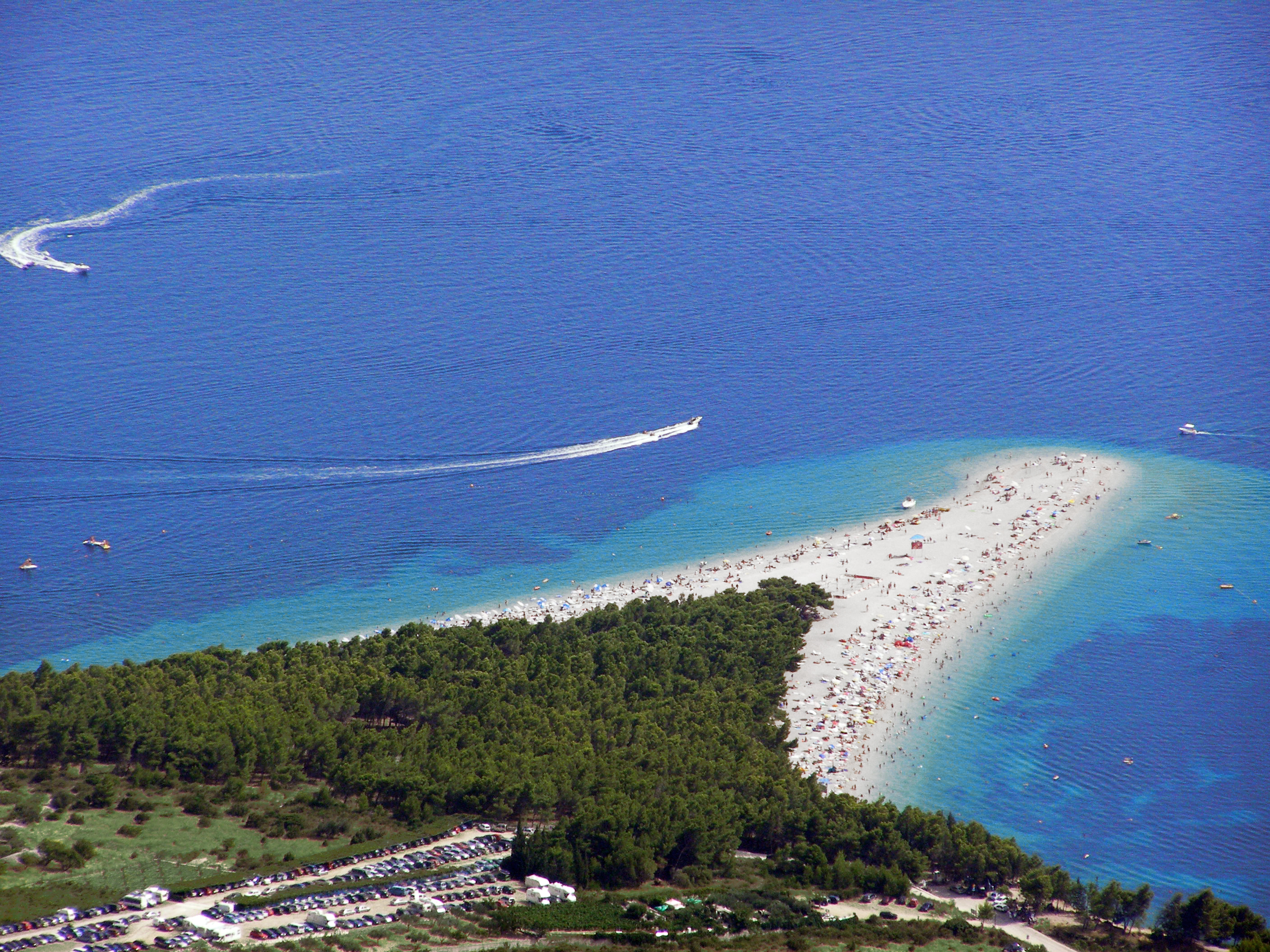 Zlatni rat, Bol, Brac, Croatia, photo from Vidova Gora Mountain